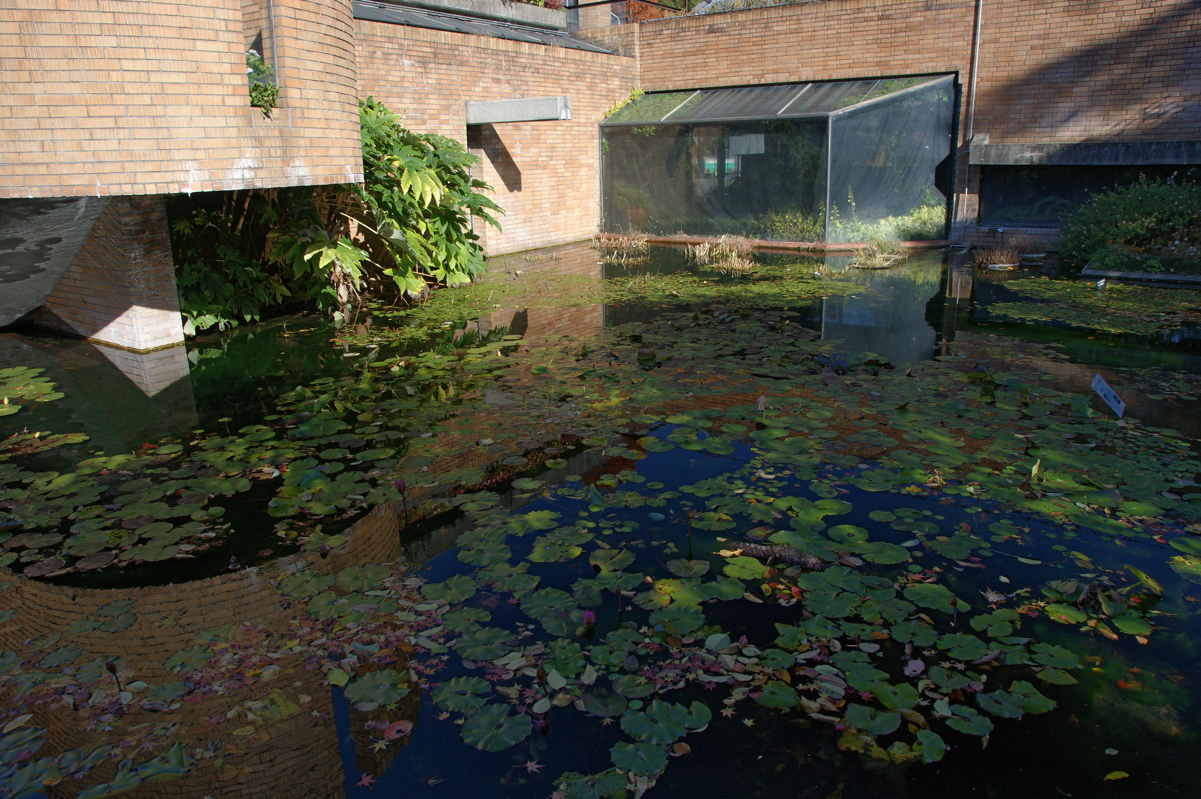 Suma Rikyu Park, Kobe, Hyogo prefecture, Japan